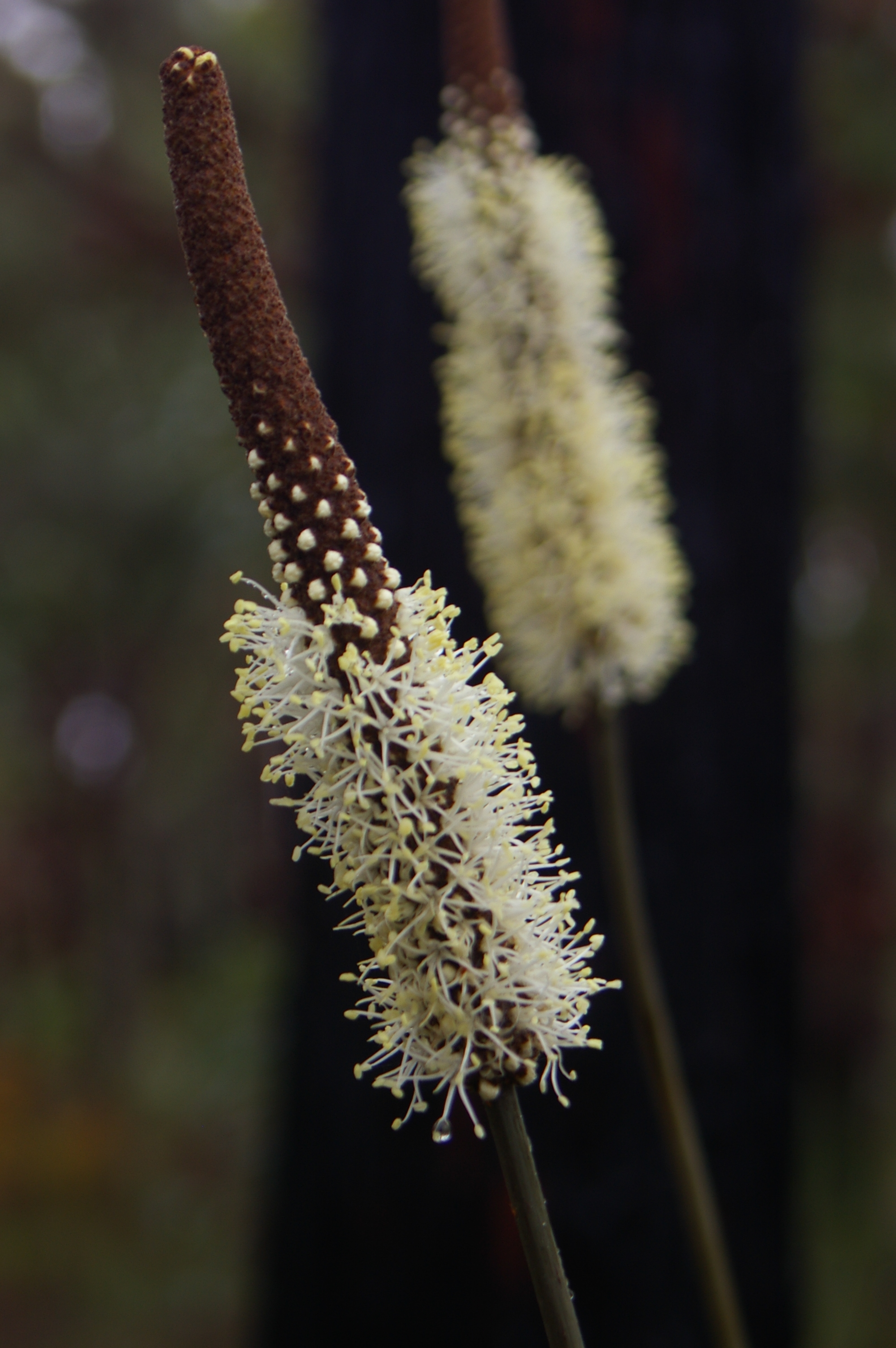 Xanthorrhoea gracilis in the Strettle road reserve, Glen Forrest, Western Australia Xanthorrhoea gracilis